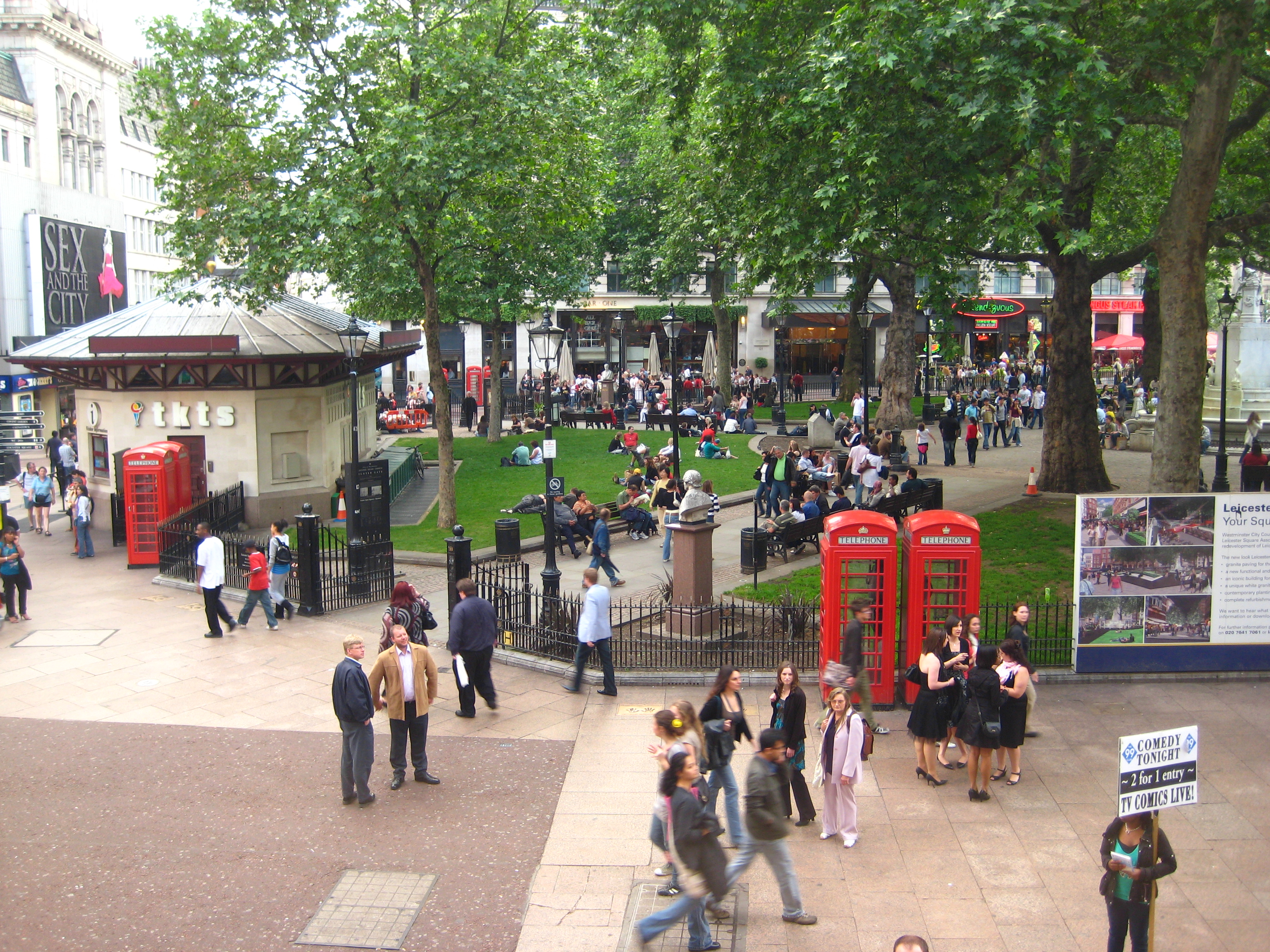 Leicester Square from Building